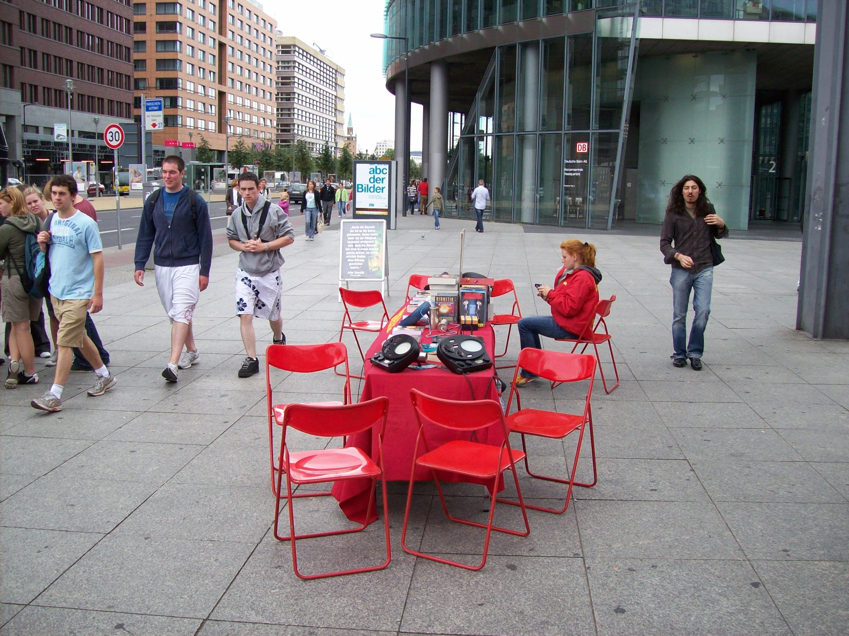 Scientology desk near Potsdamer Platz in Berlin in 2007